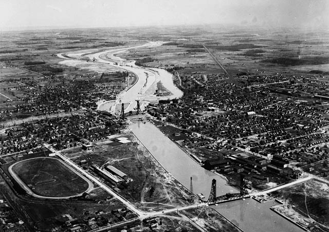 Aerial view of Welland - 1930. The race-track area on the left is the old fair grounds (now a townhouse development). The closer vertical lift bridge is Bridge 14 (Lincoln Street - now replaced with a fixed concrete span). The more distant vertical lift bridge is Bridge 13 (Main Street - still exists). Just before bridge 13 is the Alexandra Bridge which was moved from Main Street to Division Street to allow room for the construction of Bridge 13. Also visible in this picture is the aqueduct from the third canal (the narrow area just beyond Bridge 13), which was removed soon after the picture was taken.